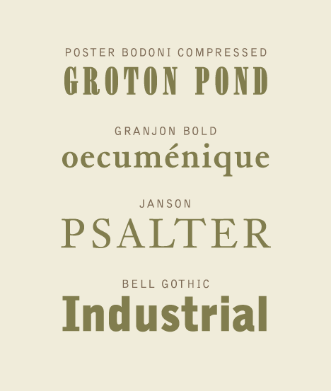 Specimens of types by typeface designer Chancey H. Griffith. 14.02.07, Jim Hood.